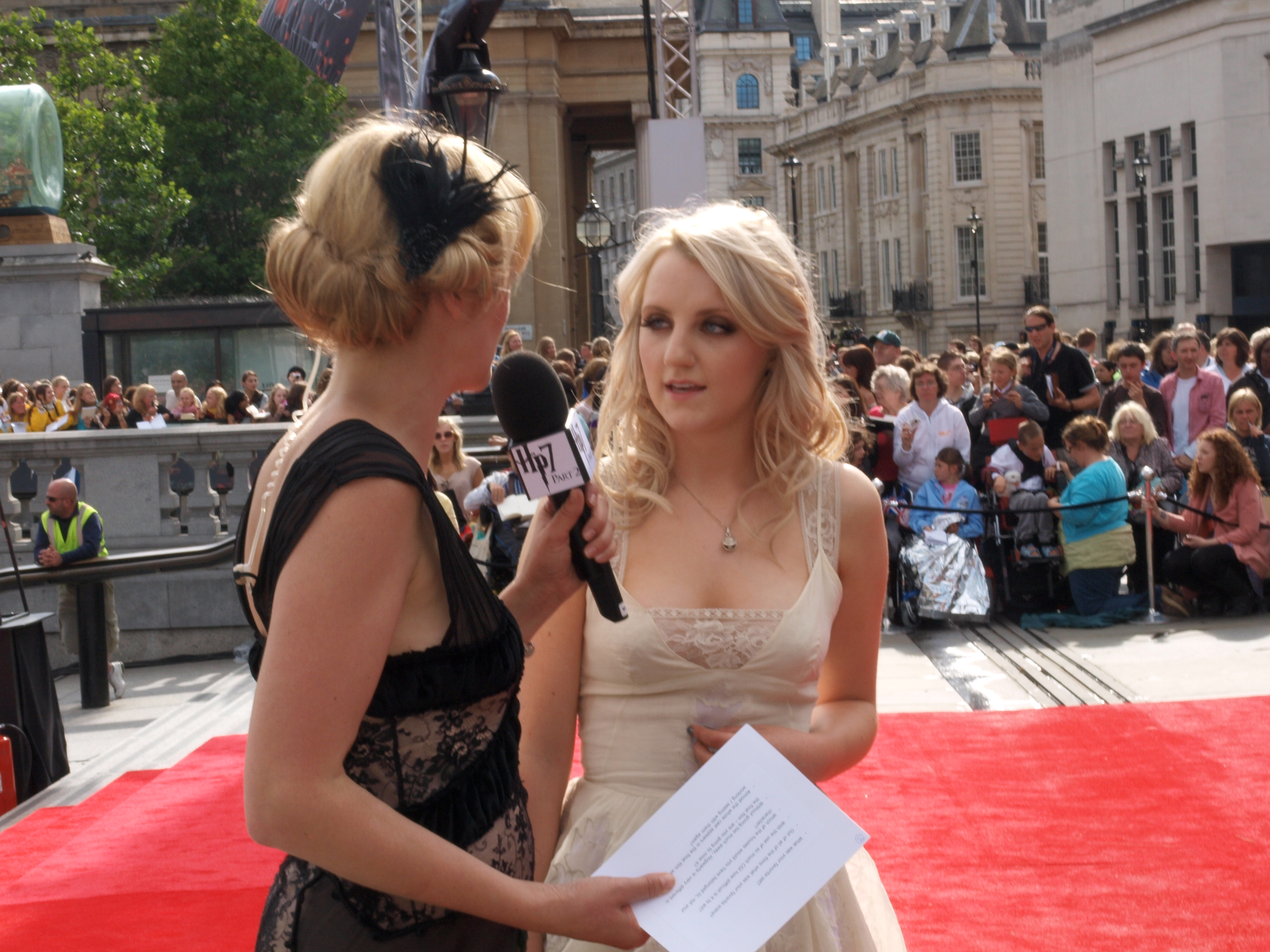 Evanna Lynch giving an interview at the premiere of Harry Potter and the Death Hallows Part 2